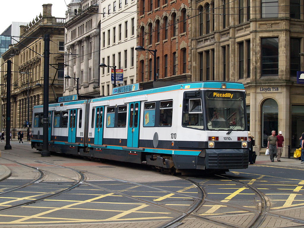 Greater Manchester Metrolink number 1010, an Ansaldo T68 (Phase 1) tram turns off Mosley Street, Manchester into Piccadilly Gardens with an inbound service for Manchester Piccadilly railway station service. Friday 25th July 2008